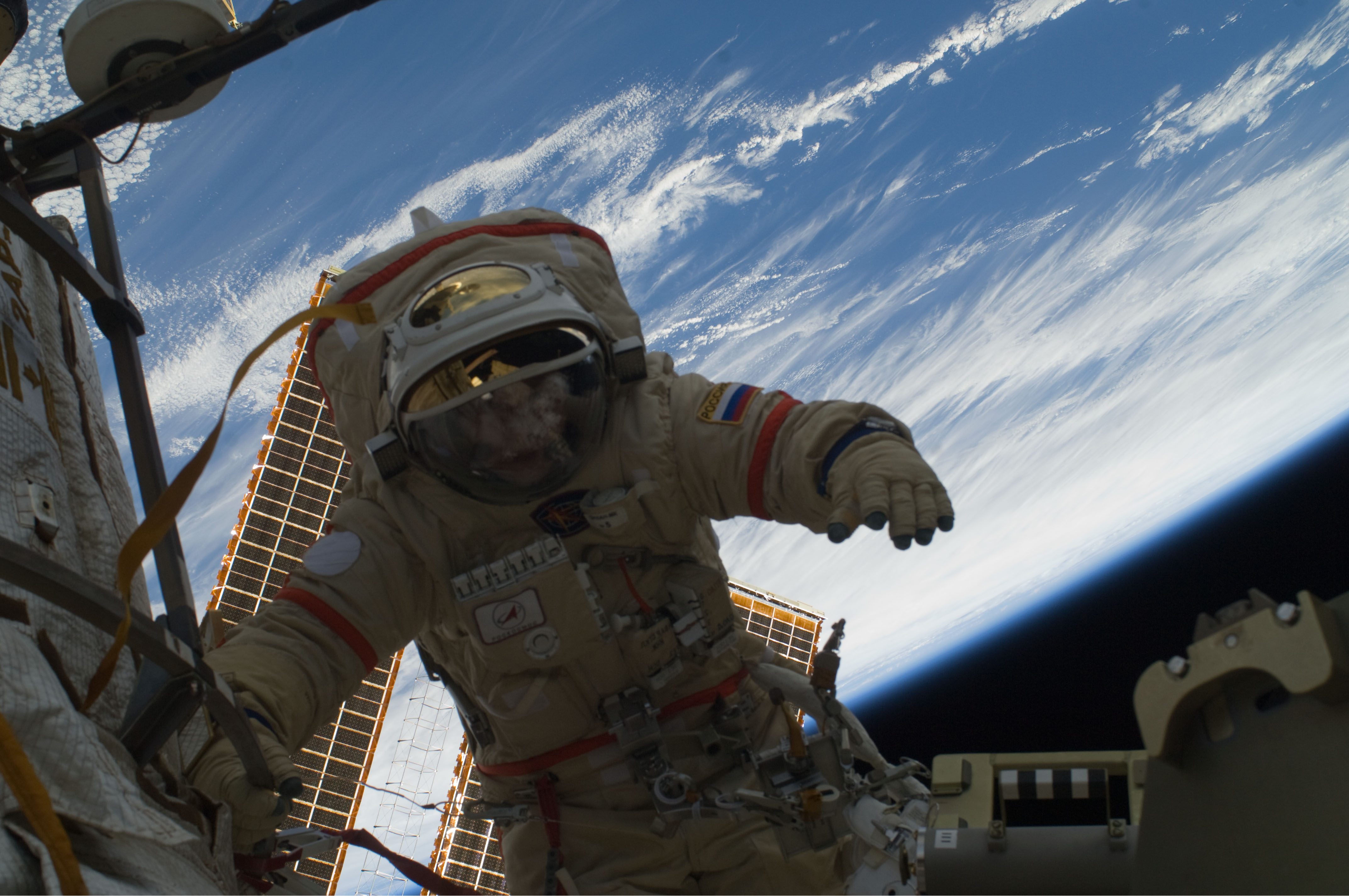 Russian cosmonauts Oleg Kotov and Maxim Suraev (out of frame), both Expedition 22 flight engineers, participate in a session of extravehicular activity (EVA) as maintenance and construction continue on the International Space Station. During the spacewalk, Kotov and Suraev prepared the Mini-Research Module 2 (MRM2), known as Poisk, for future Russian vehicle dockings. Suraev and NASA astronaut Jeffrey Williams, commander, will be the first to use the new docking port when they relocate their Soyuz TMA-16 spacecraft from the aft port of the Zvezda Service Module on Jan. 21. Earth's horizon and the blackness of space provide the backdrop for the scene.